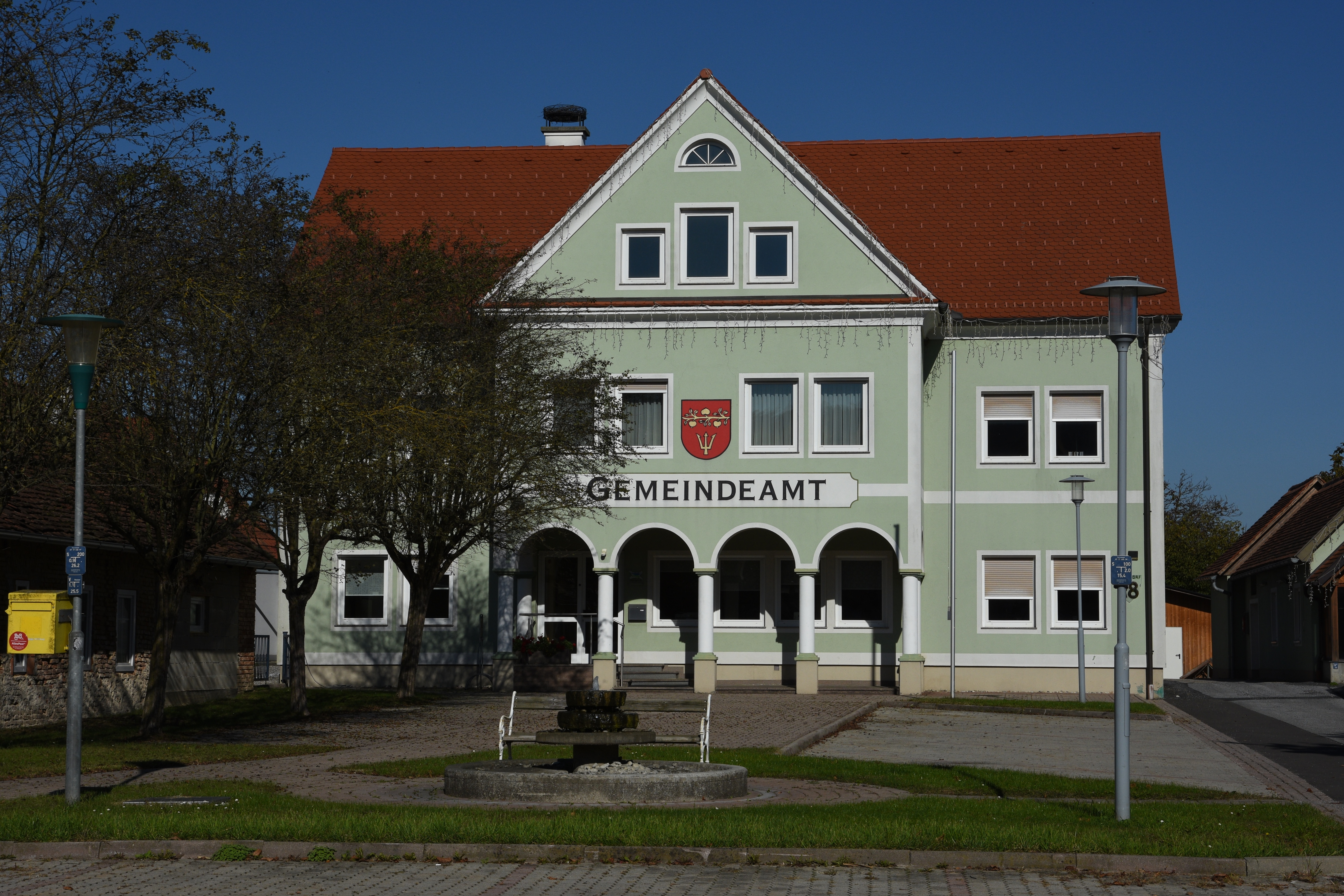 Gersdorf an der Feistritz